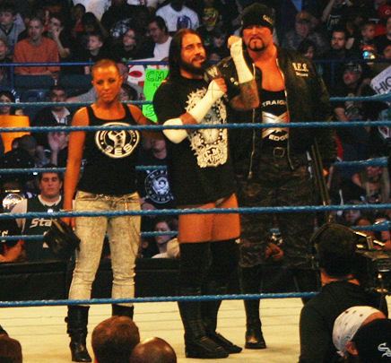 All three members of the Straight Edge Society stable.